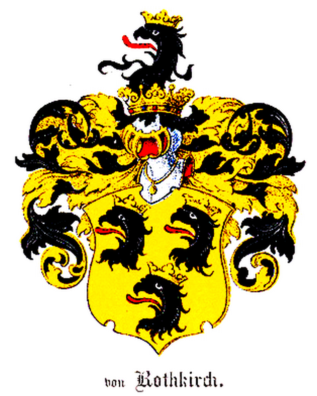 Coat of Arms of Rothkirch family